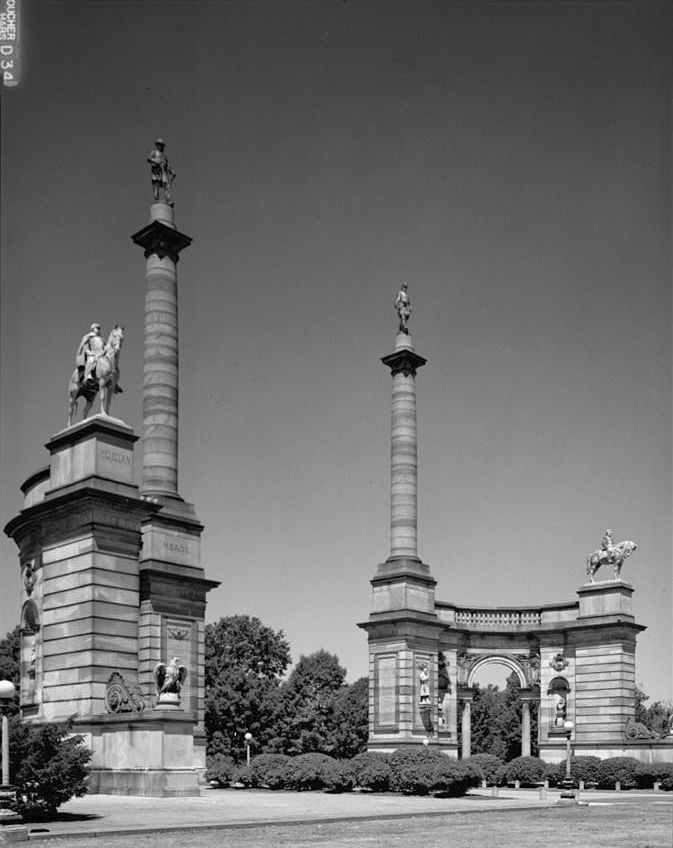 "Smith Memorial Arch" (Civil War Memorial), North Concourse and Lansdowne Drive, West Fairmount Park, Philadelphia, Pennsylvania (1897-1912), James H. and John T. Windrim, architects.